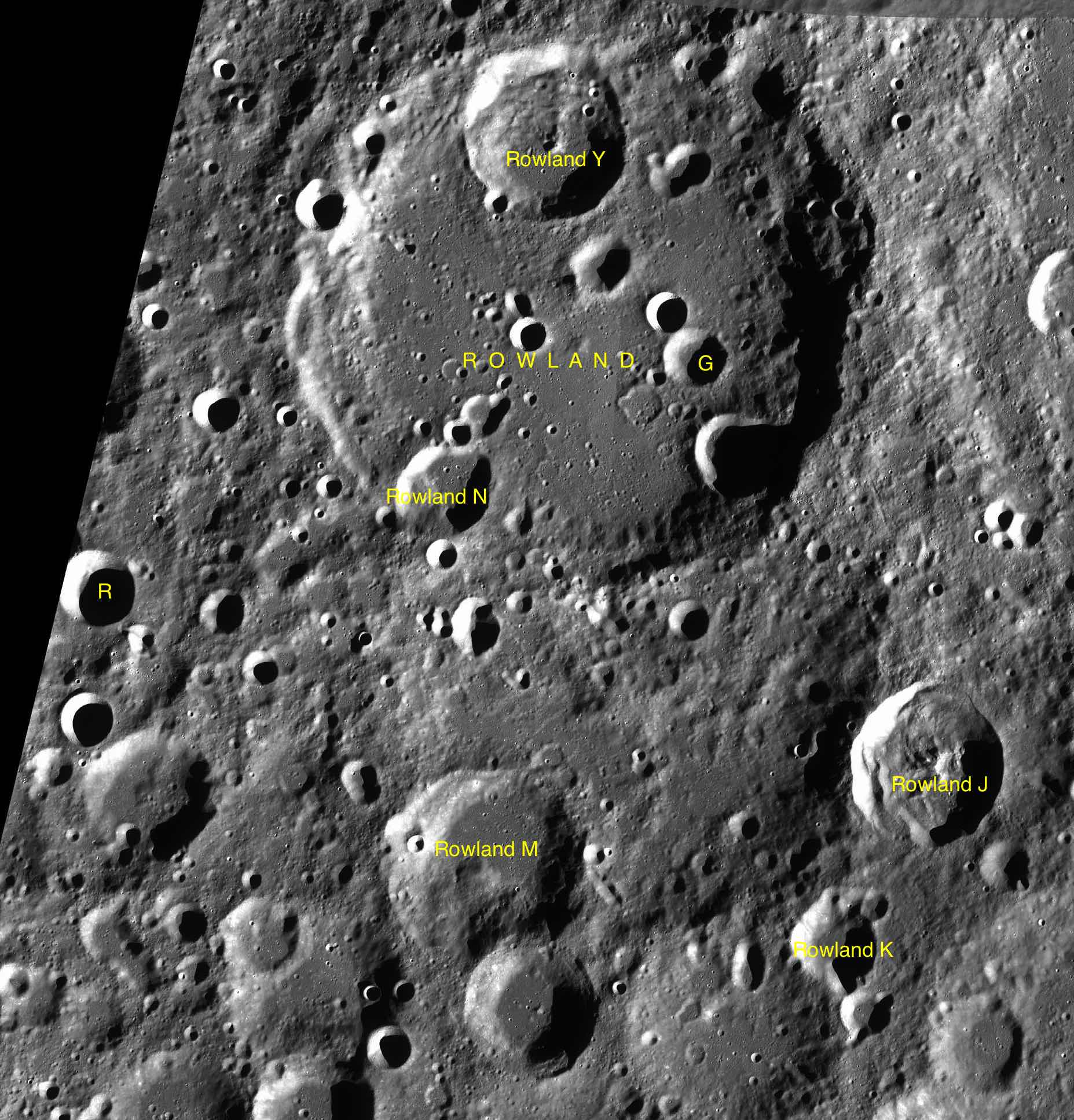 Part of the chart LAC-19 used for the presentation.